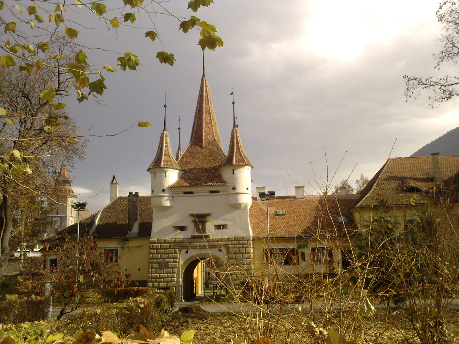 Ecaterina Gate, Brasov, Romania